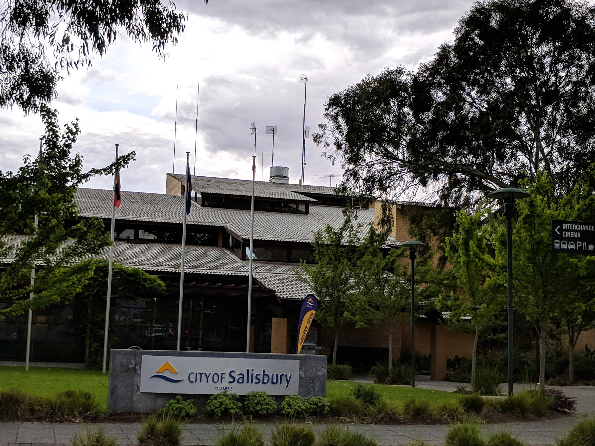 City of Salisbury council chambers, 2017